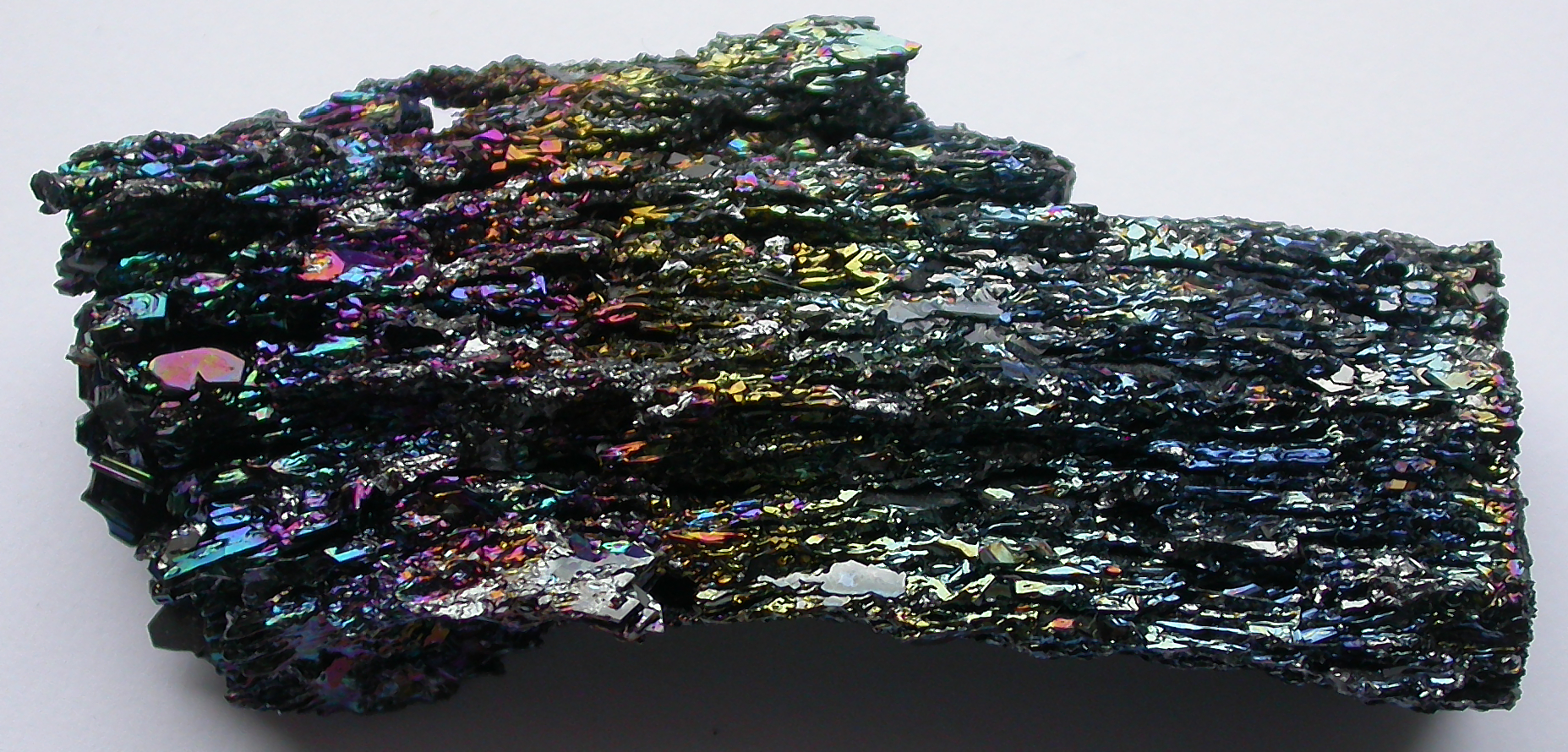 Silicon carbid, synthetic - crystal, side view